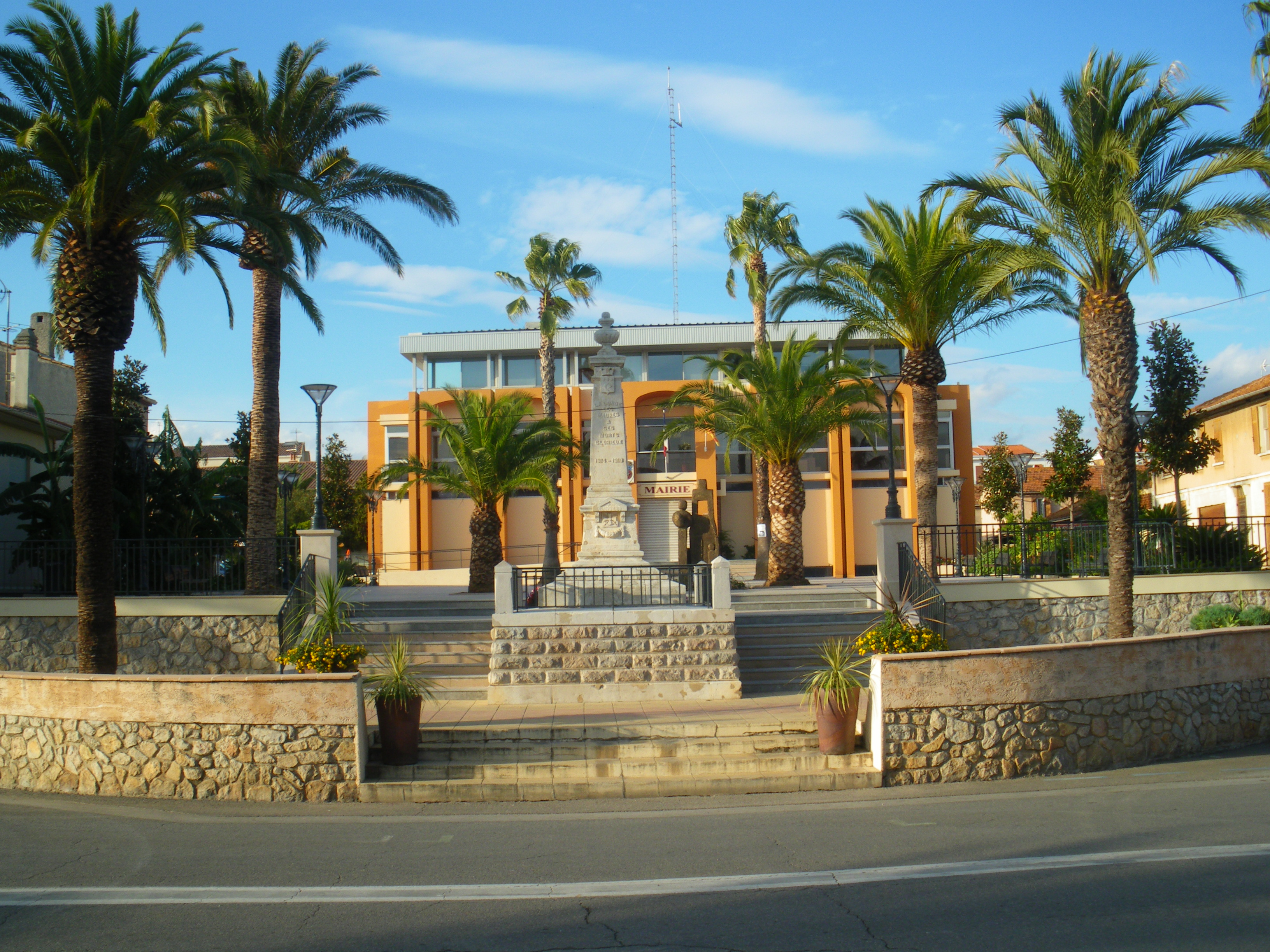 City Hall of La Londe Les Maures, 11 novembre square